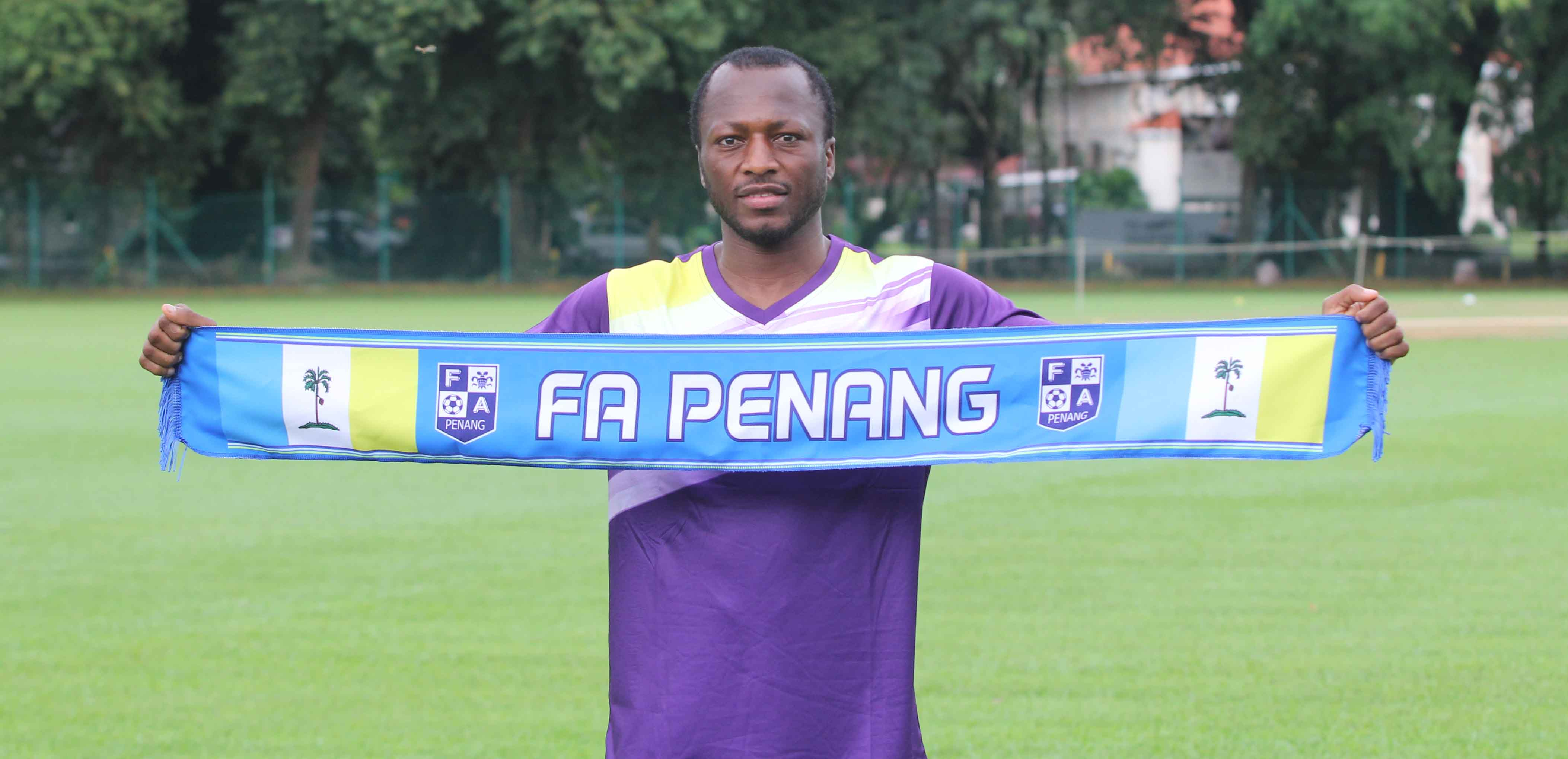 Sanna Nyassi signs for Penang FA